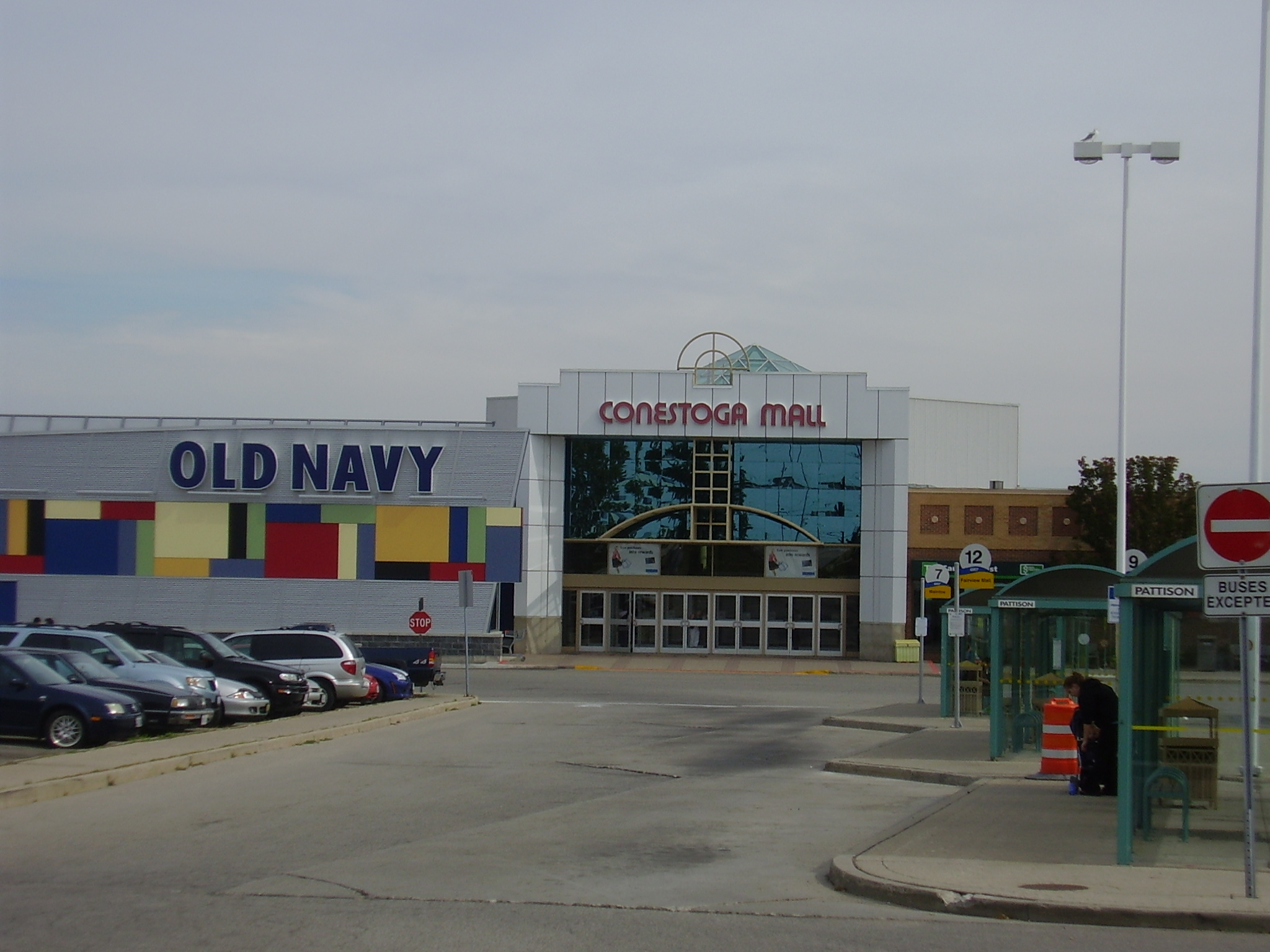 Wikipedia:Conestoga Mall, with Old Navy store, as well as transit terminal in Waterloo, Ontario